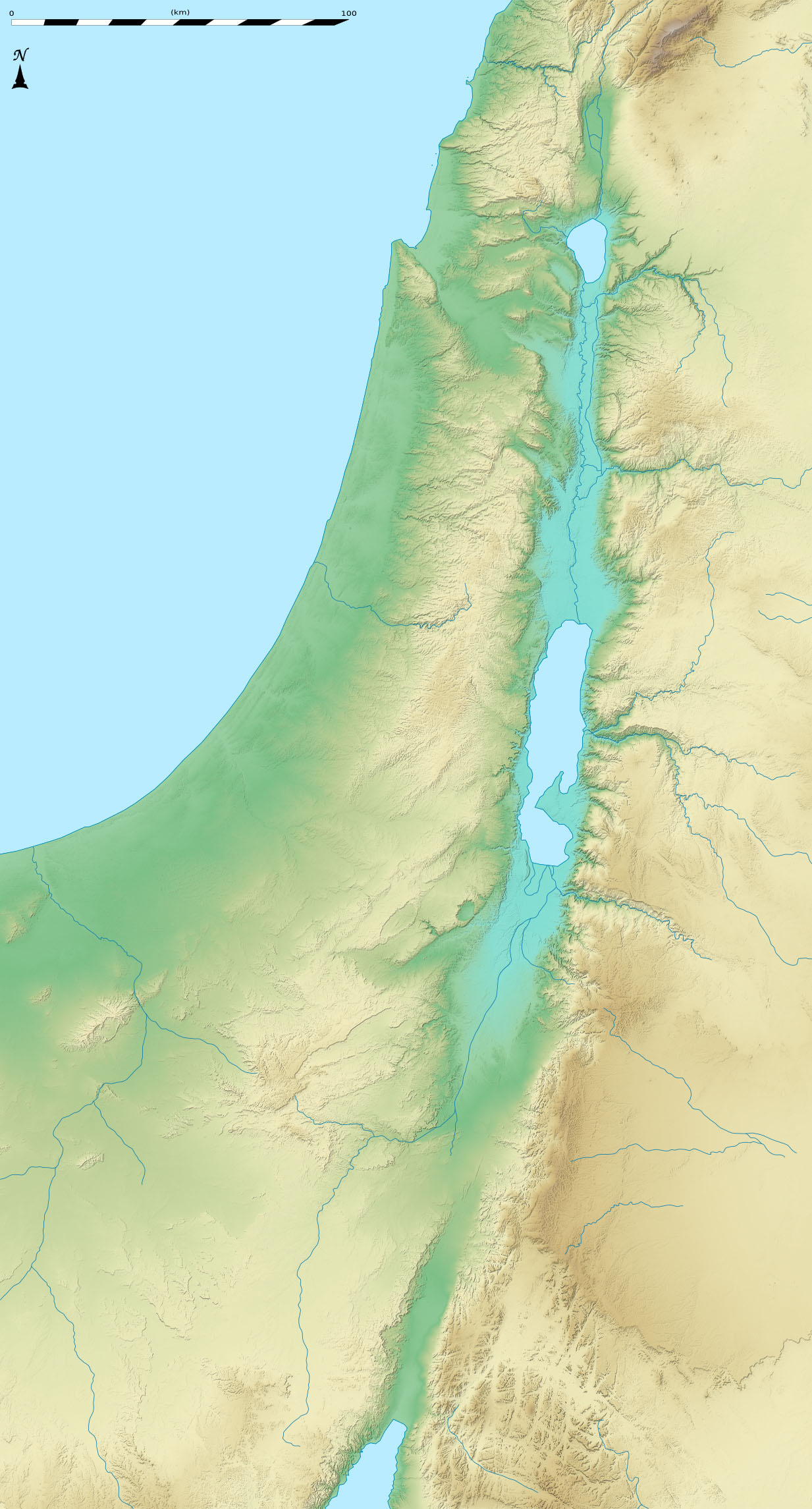 Blank location map of Israel (no boundaries).